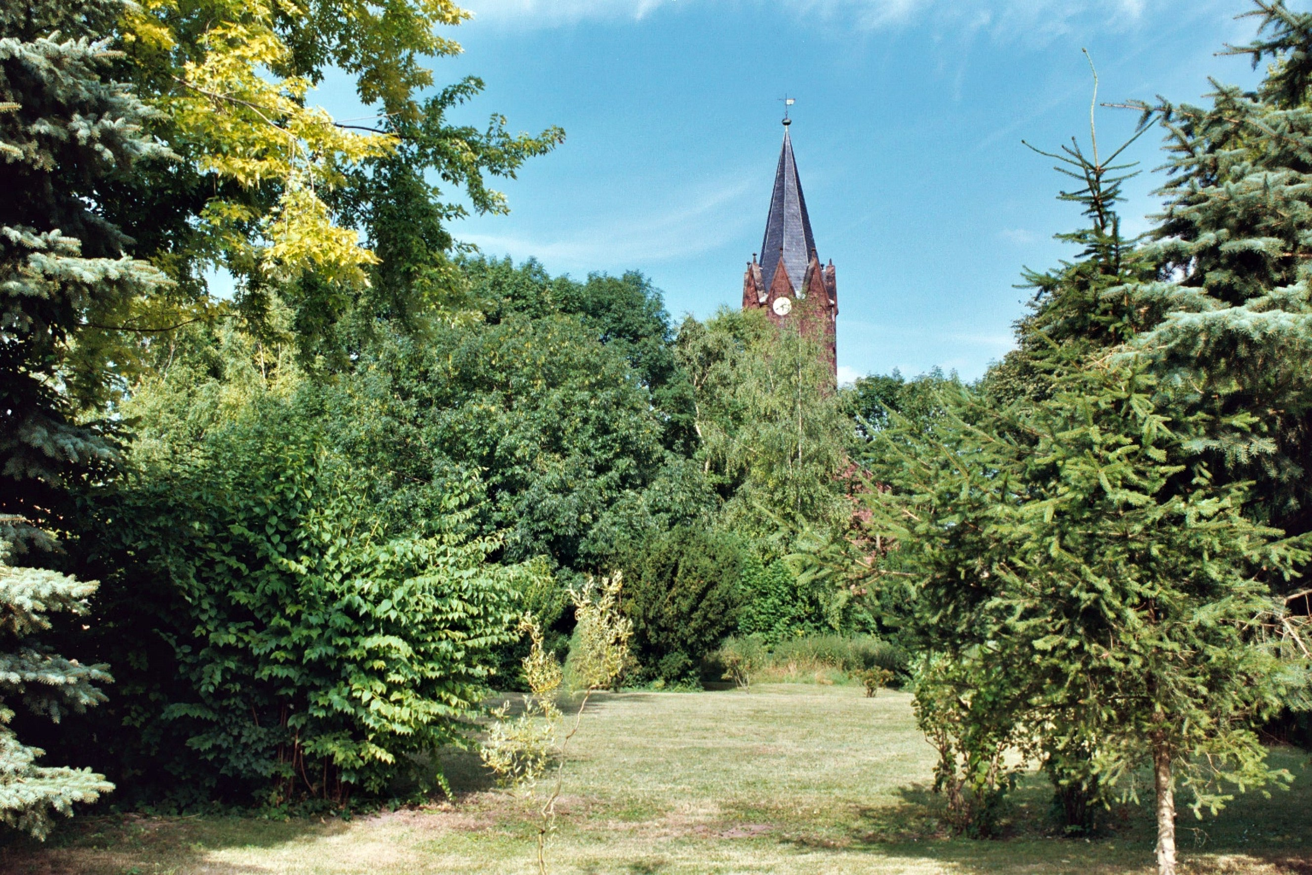 Rothenschirmbach (Lutherstadt Eisleben), the village park